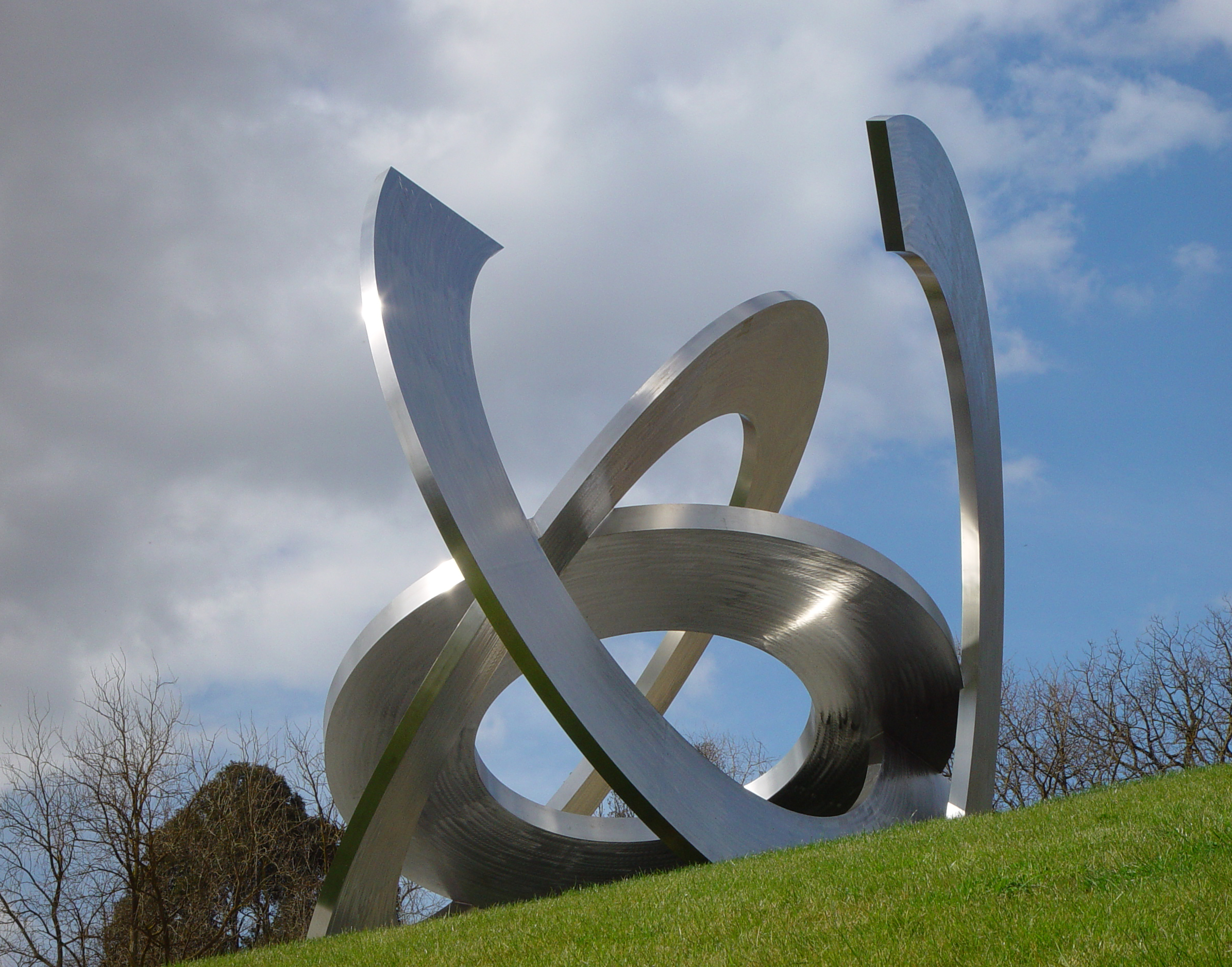 Inge King's stainless steel sculpture "Rings of Saturn" is in sculpture park next to the Heide Museum of Modern Art, 7 Templestowe Road, Bulleen (Melbourne) VIC 3105, Australia. The Heide site describes this work as: "Inge King Rings of Saturn 2005-06 Heide Museum of Modern Art Collection Commissioned through the Heide Foundation with significant assistance from Lindsay and Paula Fox 2005". Licencing